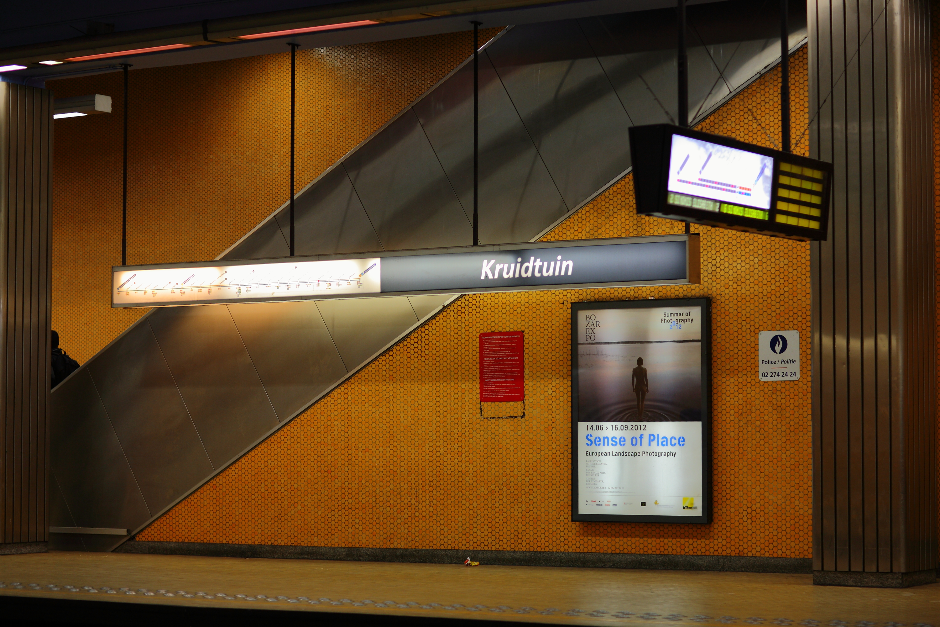 Kruidtuin/Botanique metro station in Brussels